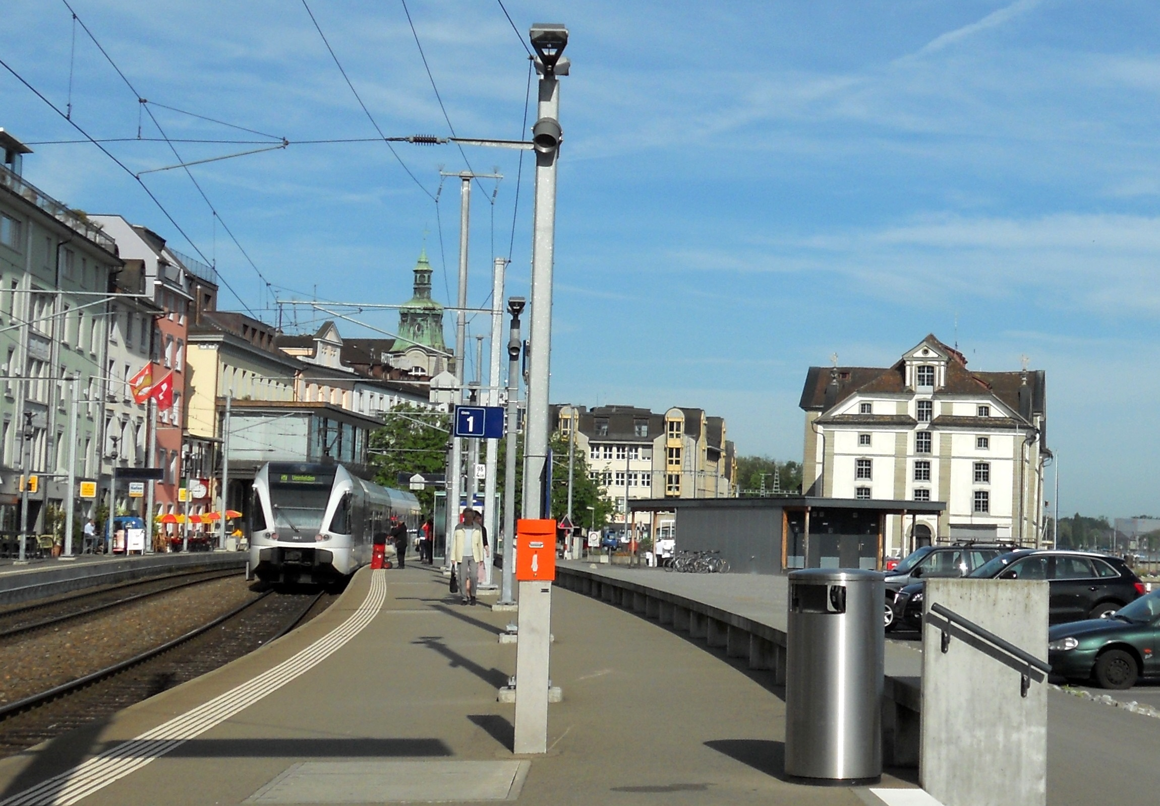 platform of the station "Rorschach Hafen" (Switzerland)